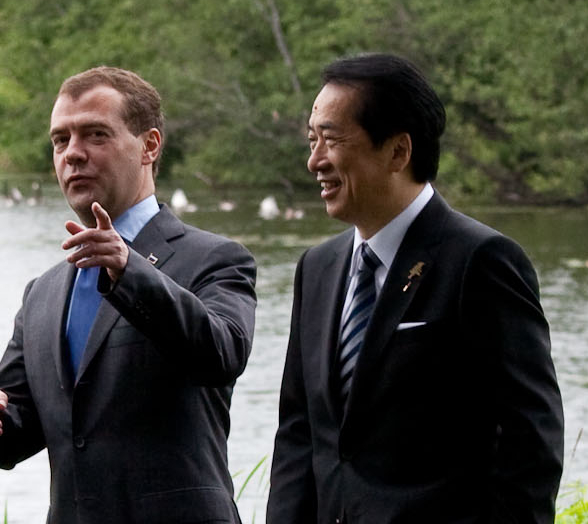 David Cameron, Prime Minister, Herman Van Rompuy, President of the European Council, Stephen Harper, Prime Minister, Dmitry Medvedev, President, Naoto Kan, Prime Minister, Silvio Berlusconi, Prime Minister, Barack Obama, President, José Manuel Barroso, President of the European Commission, Angela Merkel, Chancellor, and Nicolas Sarkozy, President, walked at the 36th G8 summit in Muskoka District Municipality, Ontario Province on June 25, 2010.